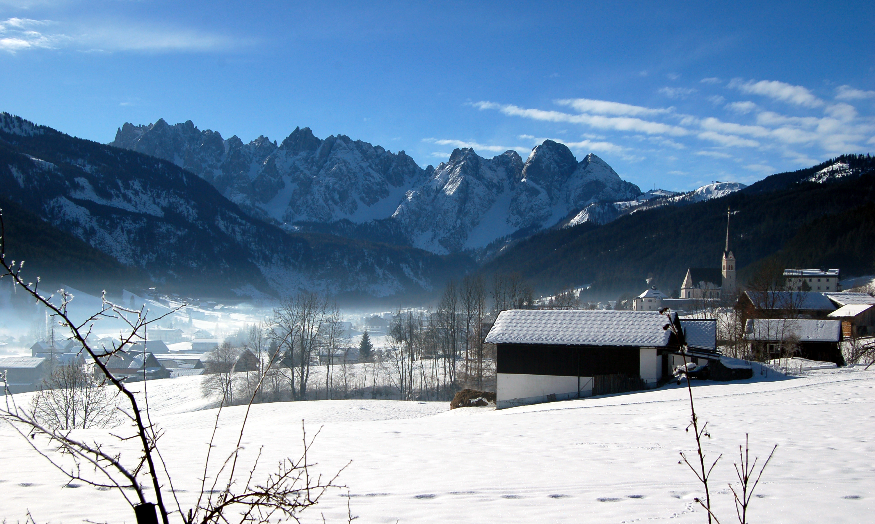 North face of Gosaukamm in Upper Austria; from Gosau